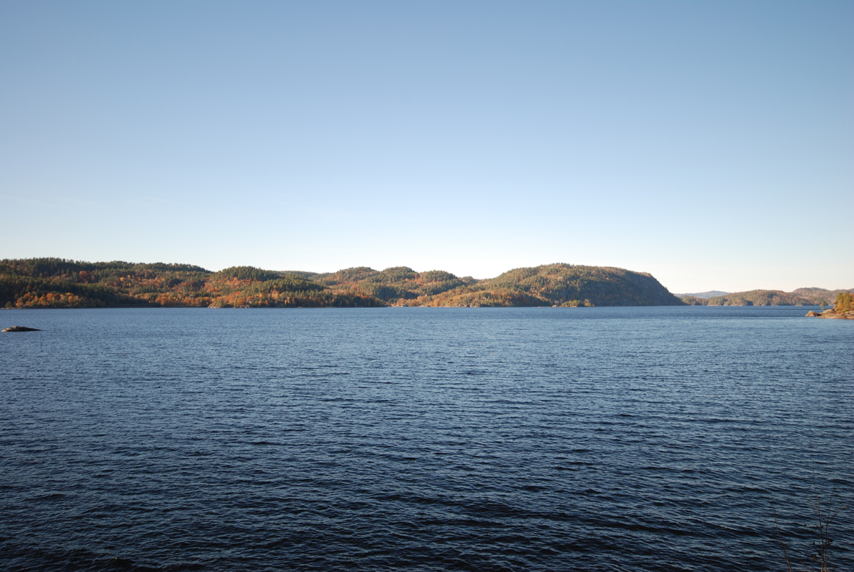 Lake Farris in Vestfold, Norway, seen from "Gopledal vannverk"